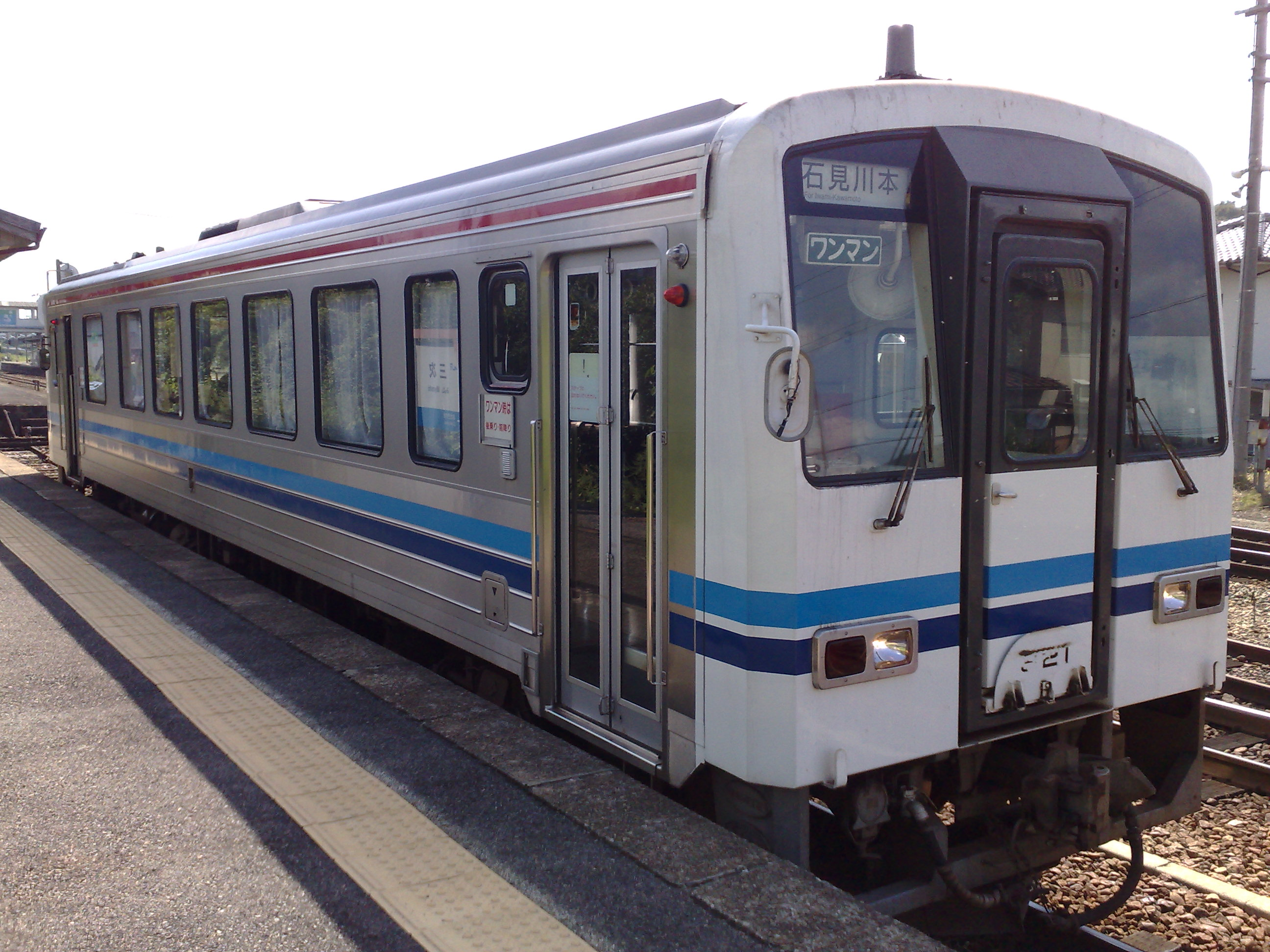 JR West KiHa 120 series DMU KiHa 120-321 at Miyoshi Station on the Sanko Line